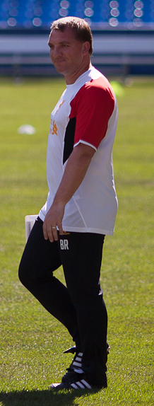 Brendan Rodgers during Liverpool training session in Toronto, 21-07-2012.